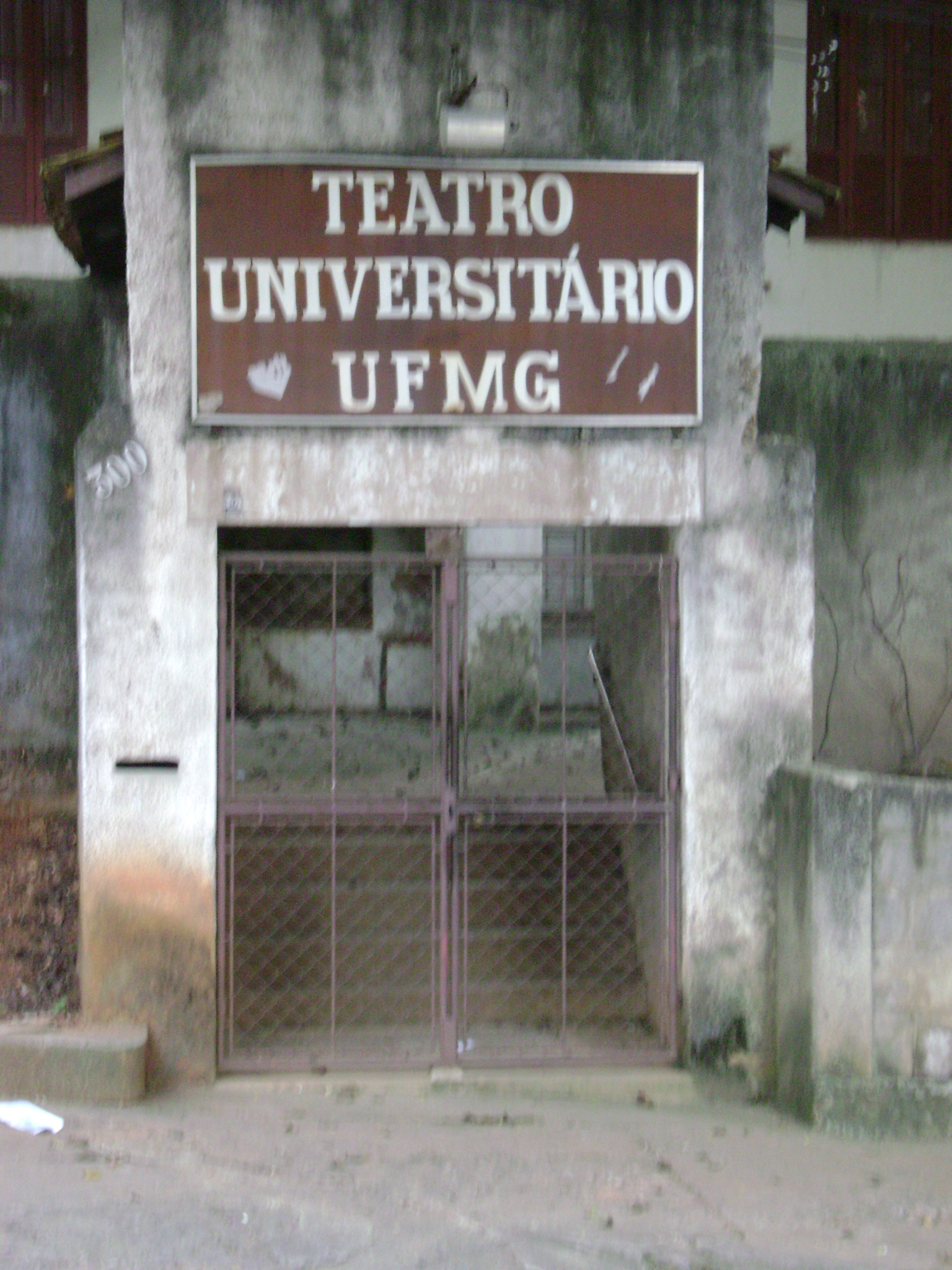 Teatro Universitário, da UFMG, em Belo Horizonte.